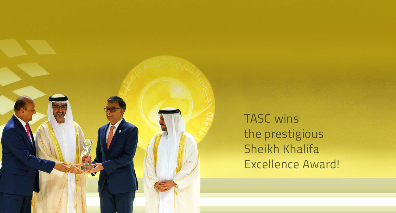 Manpower service company